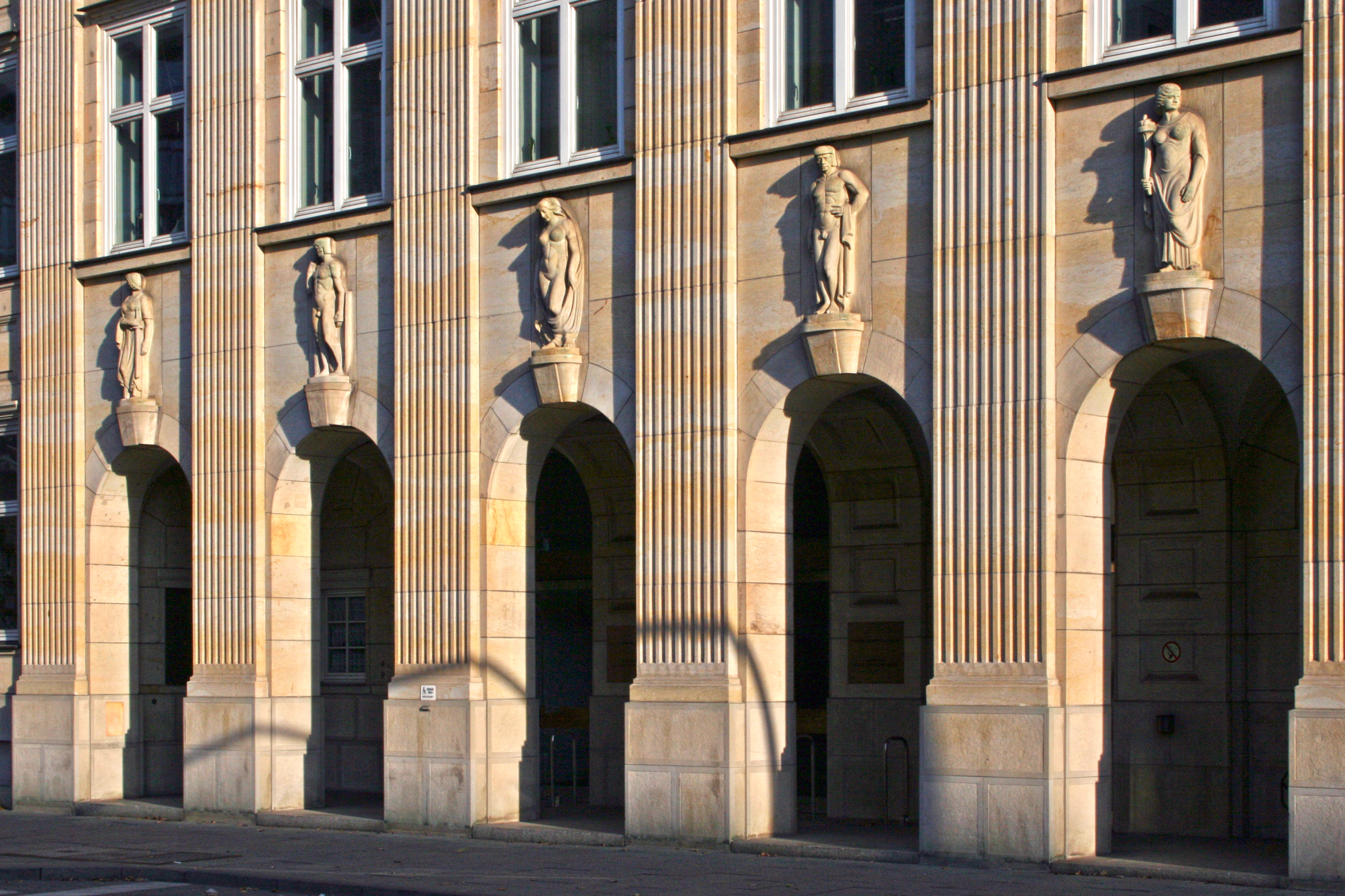 The entrance of the adjacent building of the Stadthaus, heute "Behörde für Stadtentwicklung und Umwelt". Until 1943 entrance of the Gestapo-headquarter, at the left side a Commemorative plaque for the victims of the Gestapo